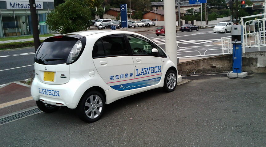 Electric-car. Made by Mitsubishi mortors.